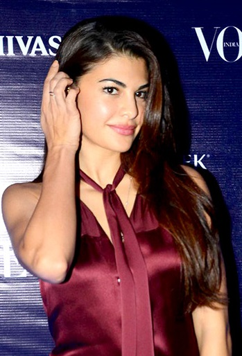 Jacqueline Fernandez graces Le Mill Bash in Colaba